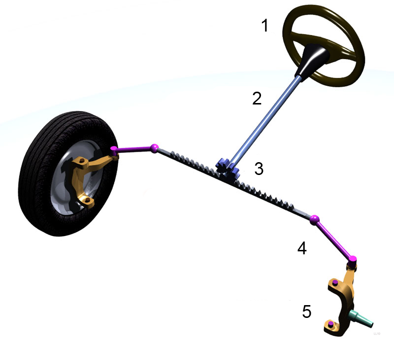 Steer system: 1 Steer; 2 Steering column; 3 Pinion; 4 Steer arm; 5 Fusee